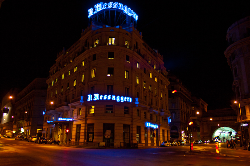 Il Messaggero newspaper building in Rome at night. June 20, 2010